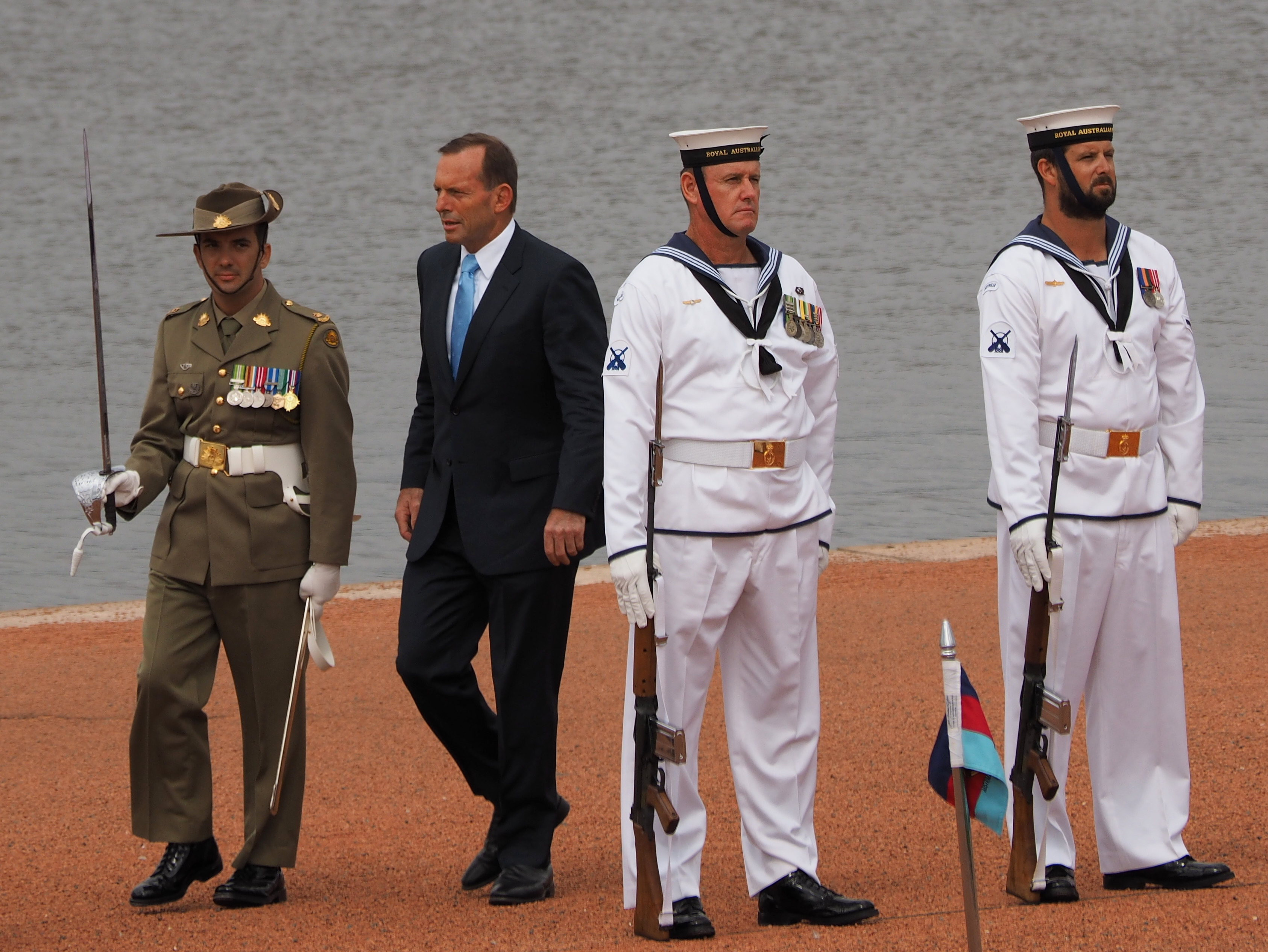 Tony Abbott inspecting Australia's Federation Guard at the 2015 National Flag Raising and Citizenship Ceremony